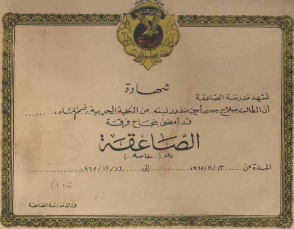 Egypt Saeiqa commando school certif